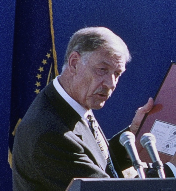 Gordon Faber, mayor of Hillsboro, Oregon, speaking at the opening ceremonies – in Hillsboro – of TriMet's Westside MAX light rail line.